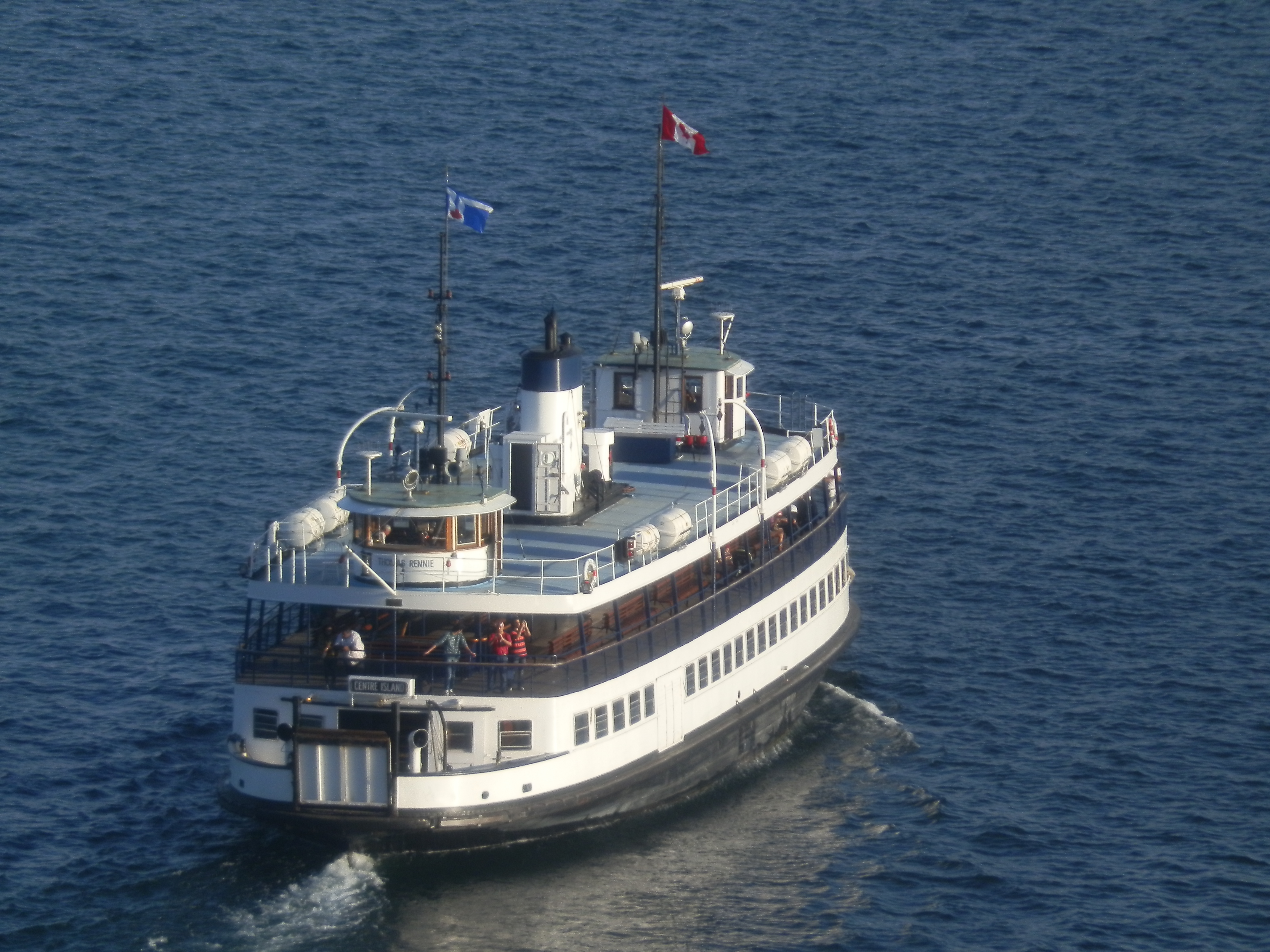 Ferry Thomas Rennie